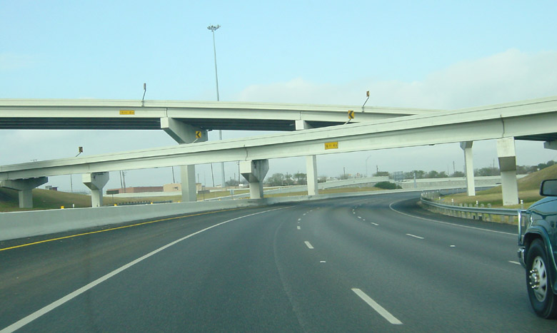 A picture the interchange at Interstate 37 and U.S. Route 77 north of Corpus Christi, Texas.